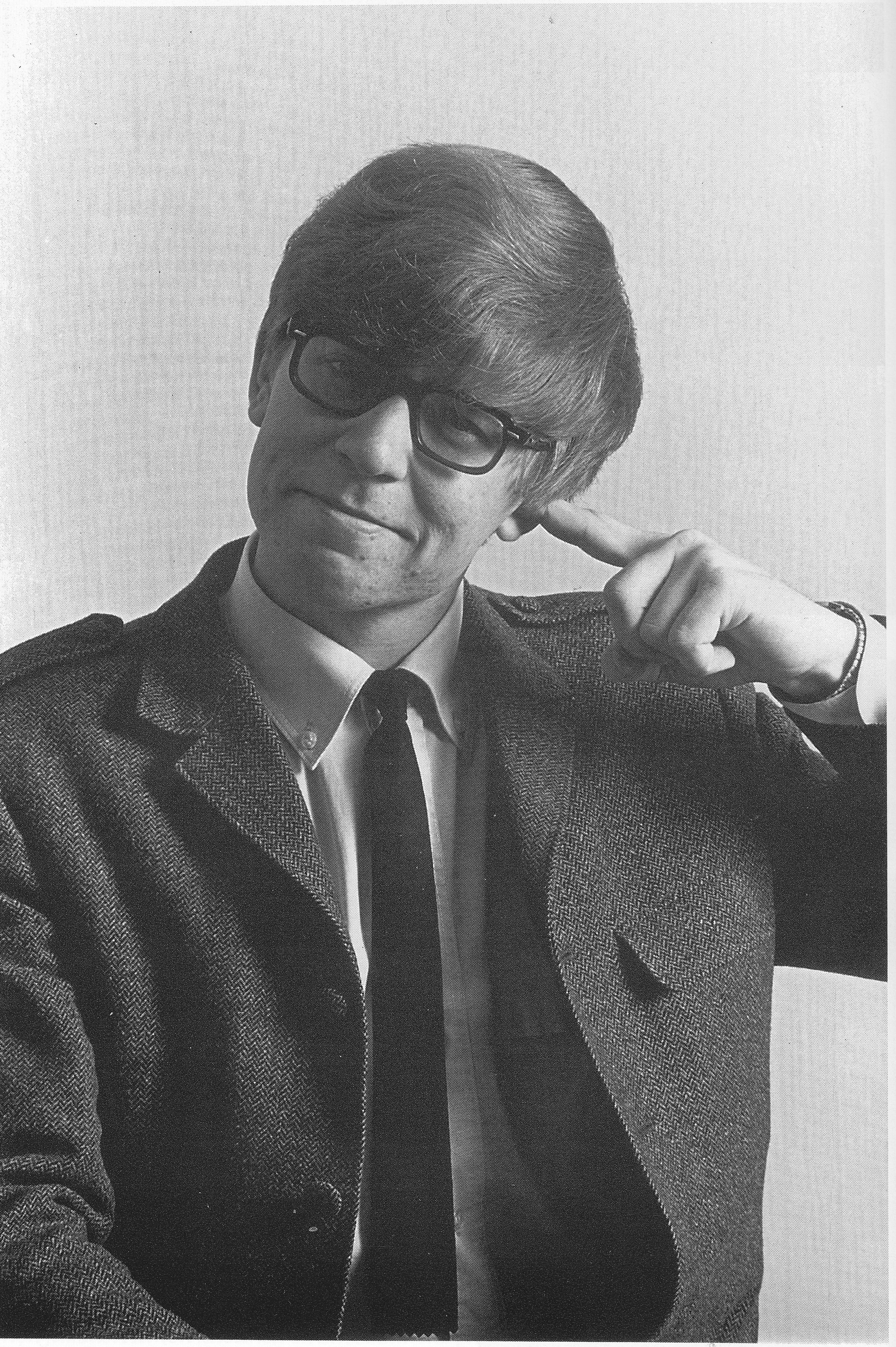 Markku Veijalainen